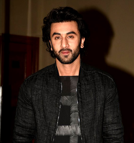 Ranbir Kapoor promoting Jagga Jasoos in 2017